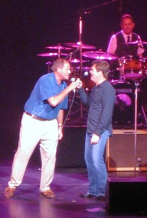 ESPN television personality Chris Berman is called up to the stage by Huey Lewis, and they then sing "Walking on a Thin Line." This is a shrunken, cropped, and slightly retouched version of the original picture.